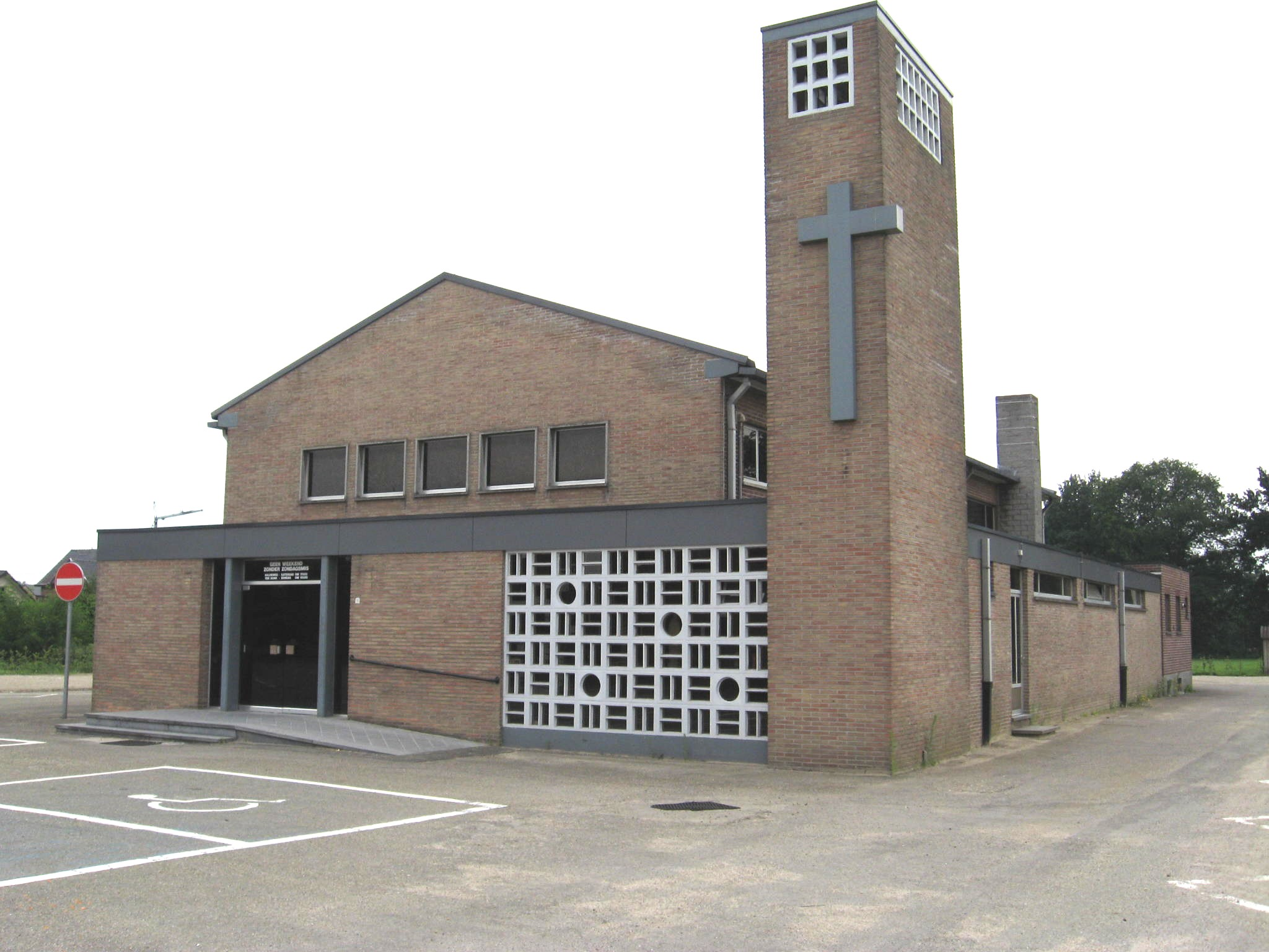 Church of Saint Eligius in Zonhoven (Terdonk), Limburg, Belgium